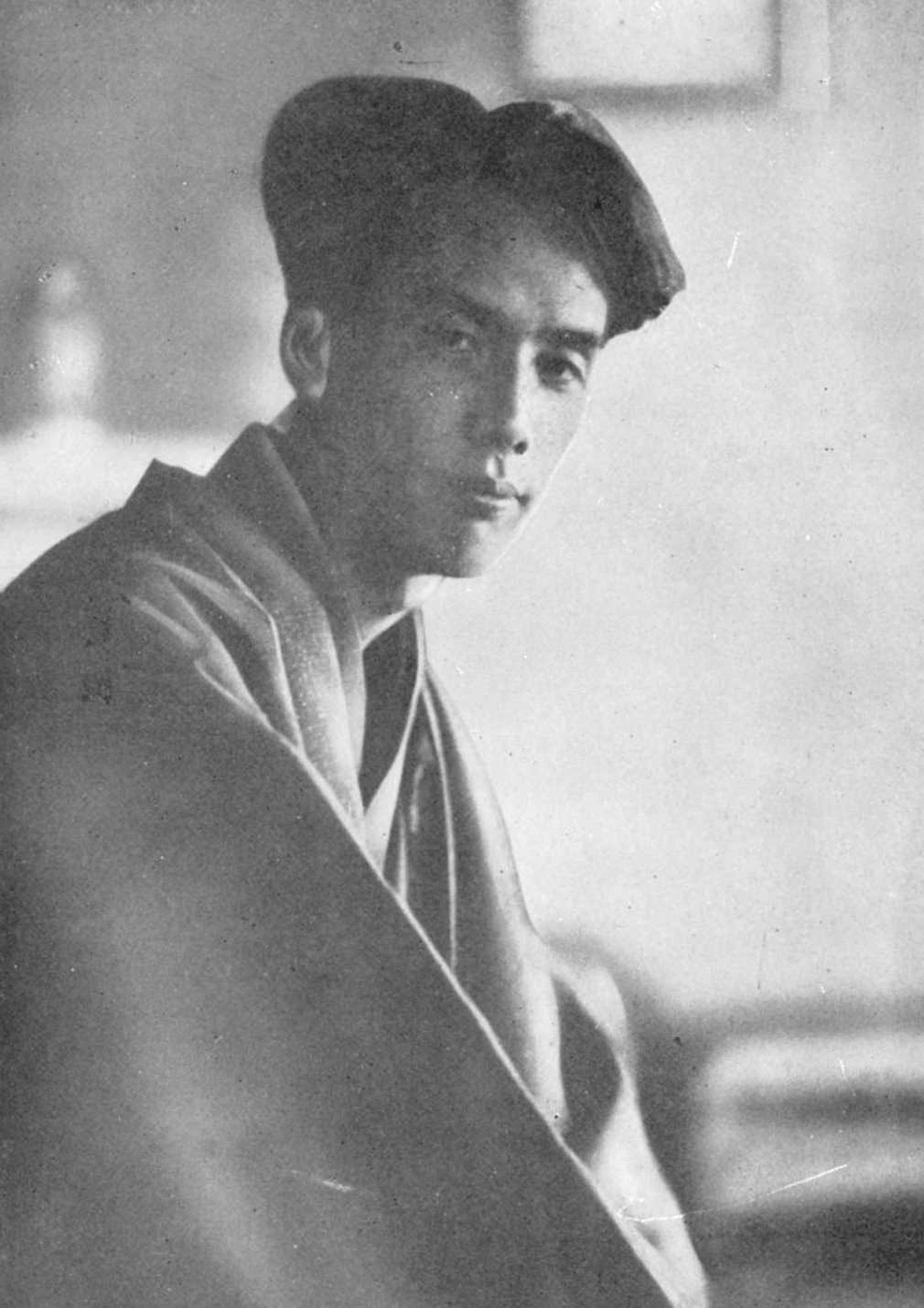 Ryunosuke Akutagawa